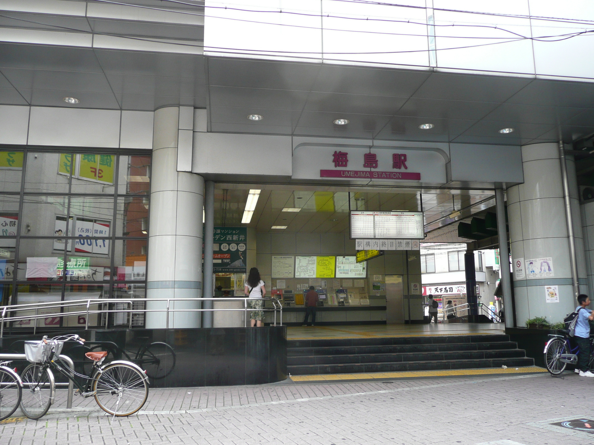 Umejima Station east entrance,Tobu Railway.